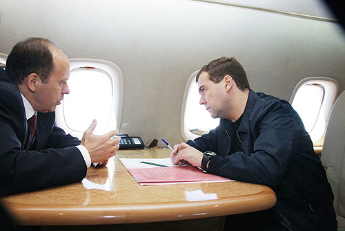 Russian President Medvedev with FSB Director Alexander Bortnikov on the way from Moscow to Makhachkala.